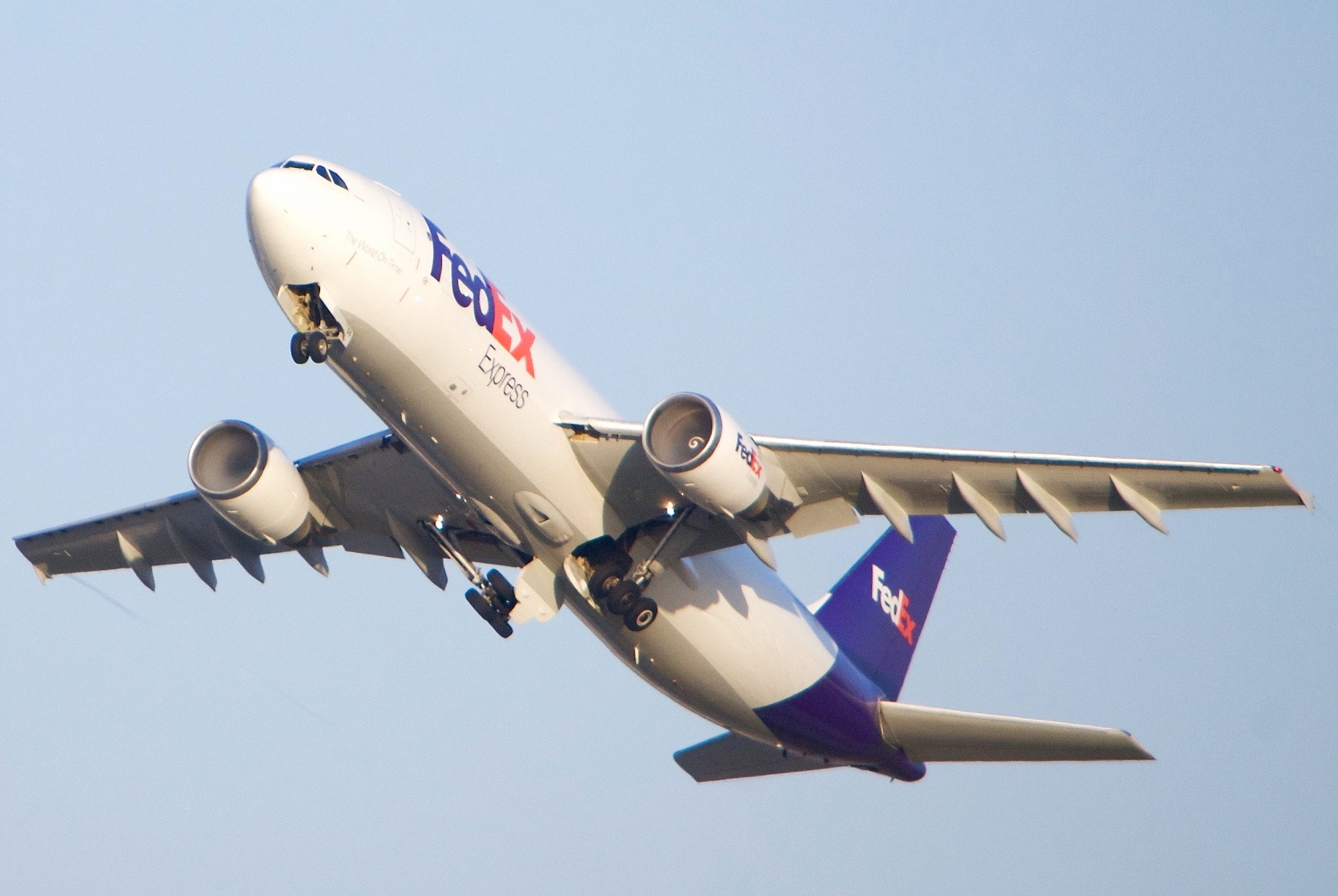 FedEx Airbus A300 condensation in both intakes! DSC_20022